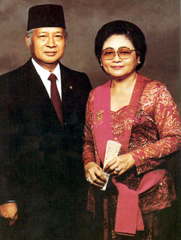 President Suharto and Madame Tien